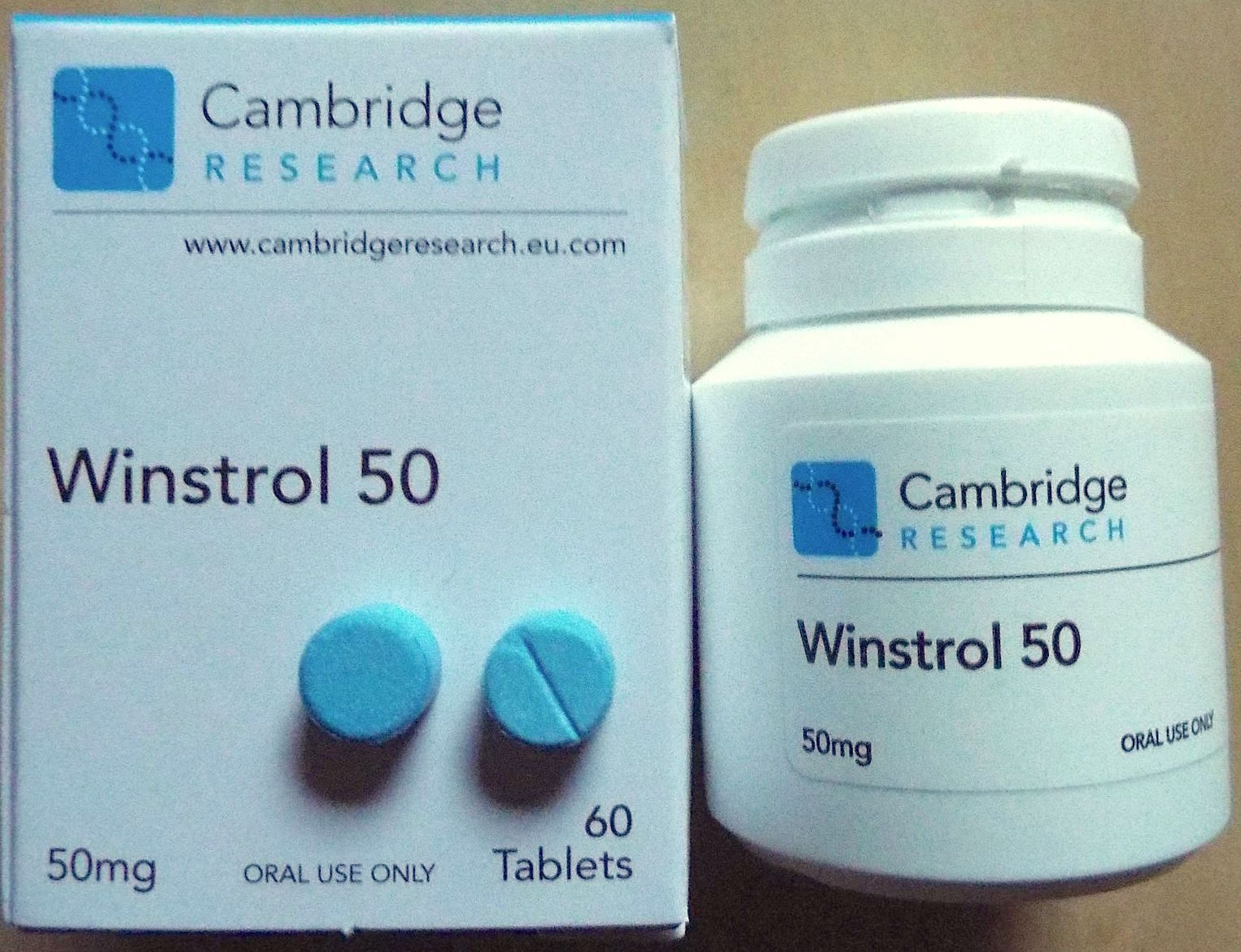 Stanozolol 50mg tablets